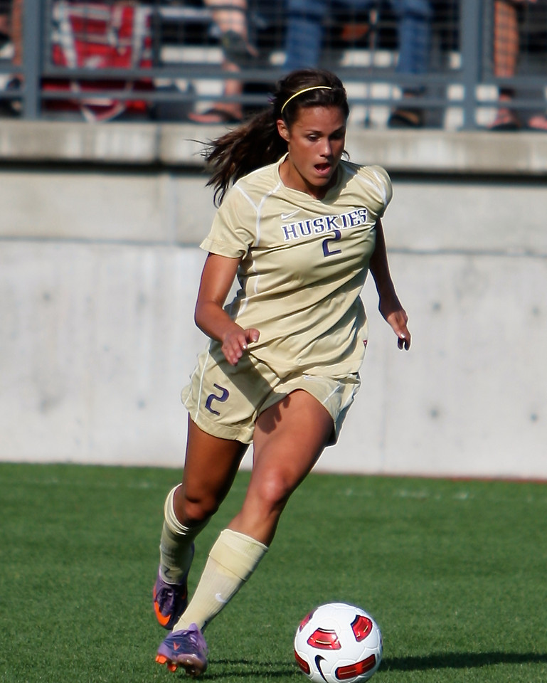 Kate Deines during season opener at Seattle University on August 20, 2010